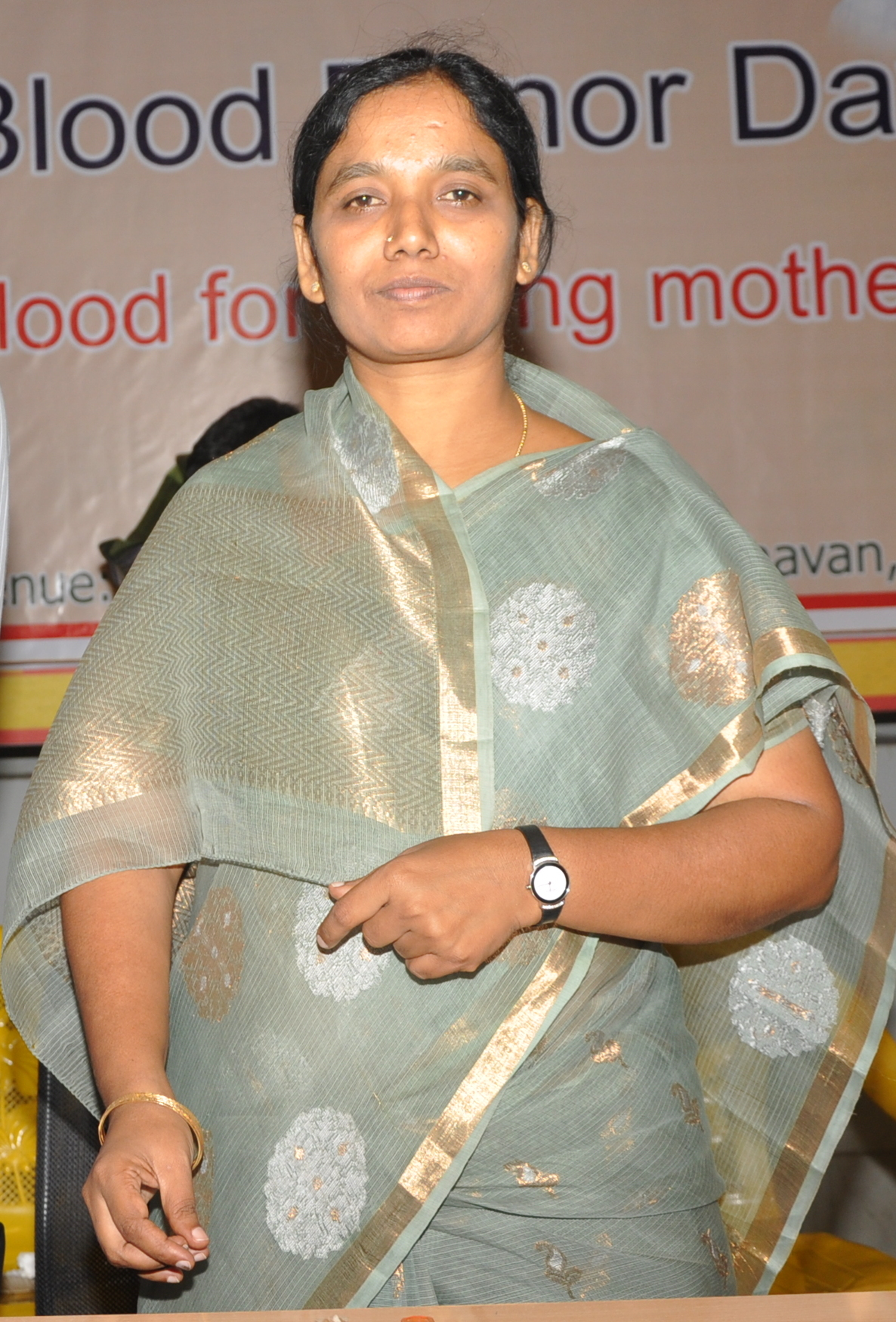 Paritala Suneetha